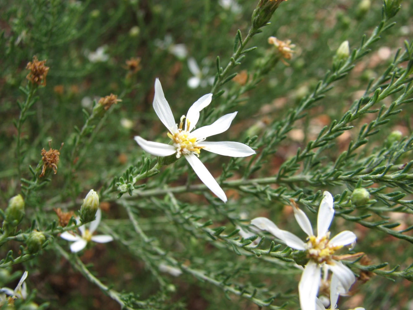 Olearia floribunda (cultivated, labelled), Geelong Botanic Gardens, Victoria, Australia